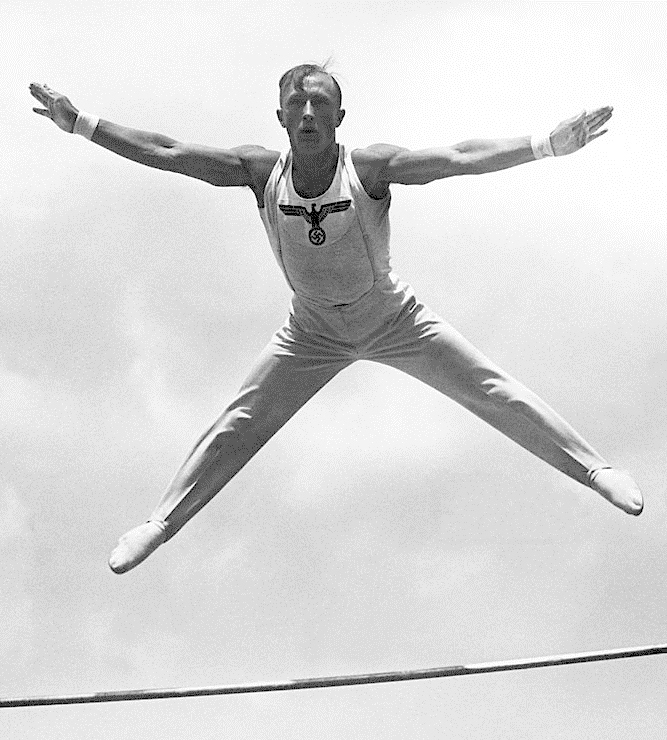 The German Athlete Alfred Schwarzmann Performing A Jump In The Image Of The Nazi Eagle Which Is Seen On His Chest During The High Bar Event At The Olympic Games Of Berlin On July 17, 1936. He Finished 3Rd In The Event.